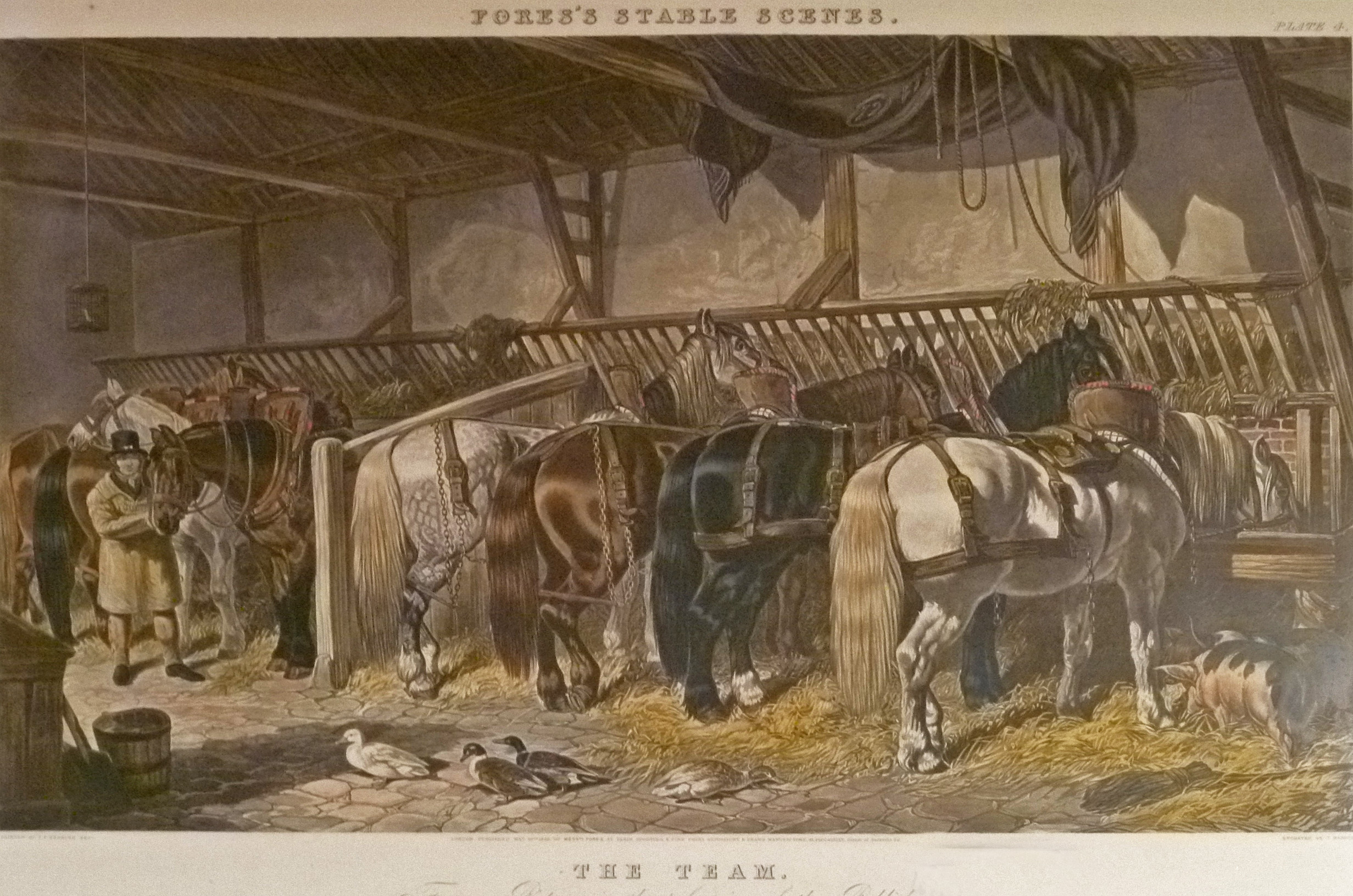 "The Team", Fores's stable scenes by Henry A. Papprill; private collection